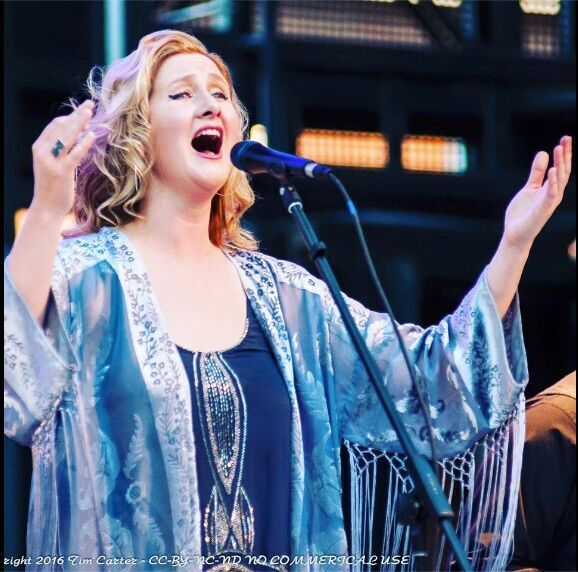 Used by permission - Tim Carter, Photographer - Taken at the Lowell Music Series in Lowell, MA, June 2016 opening for Patty Griffin.